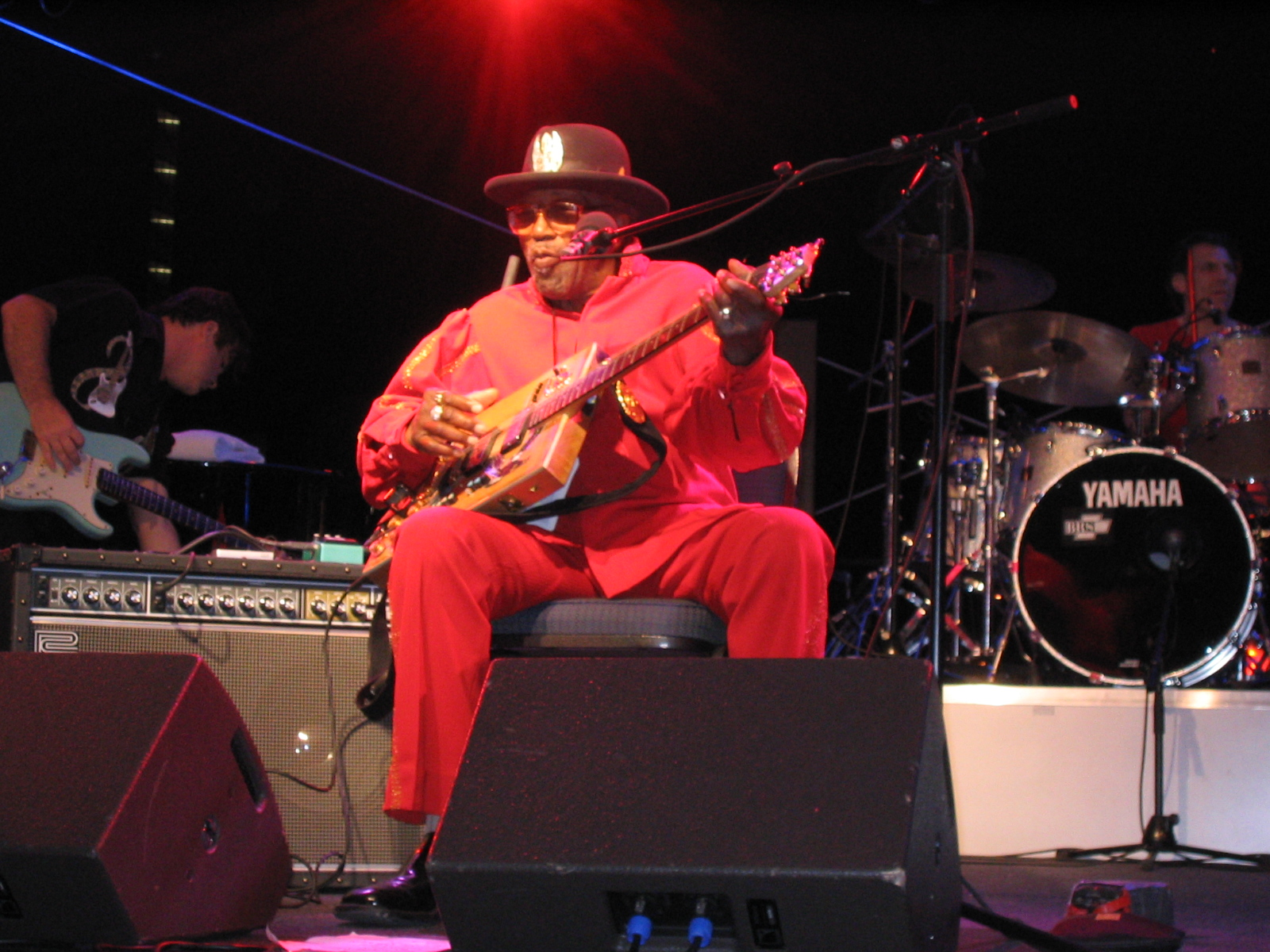 Bo Diddley in Wolfsburg (Autostadt)